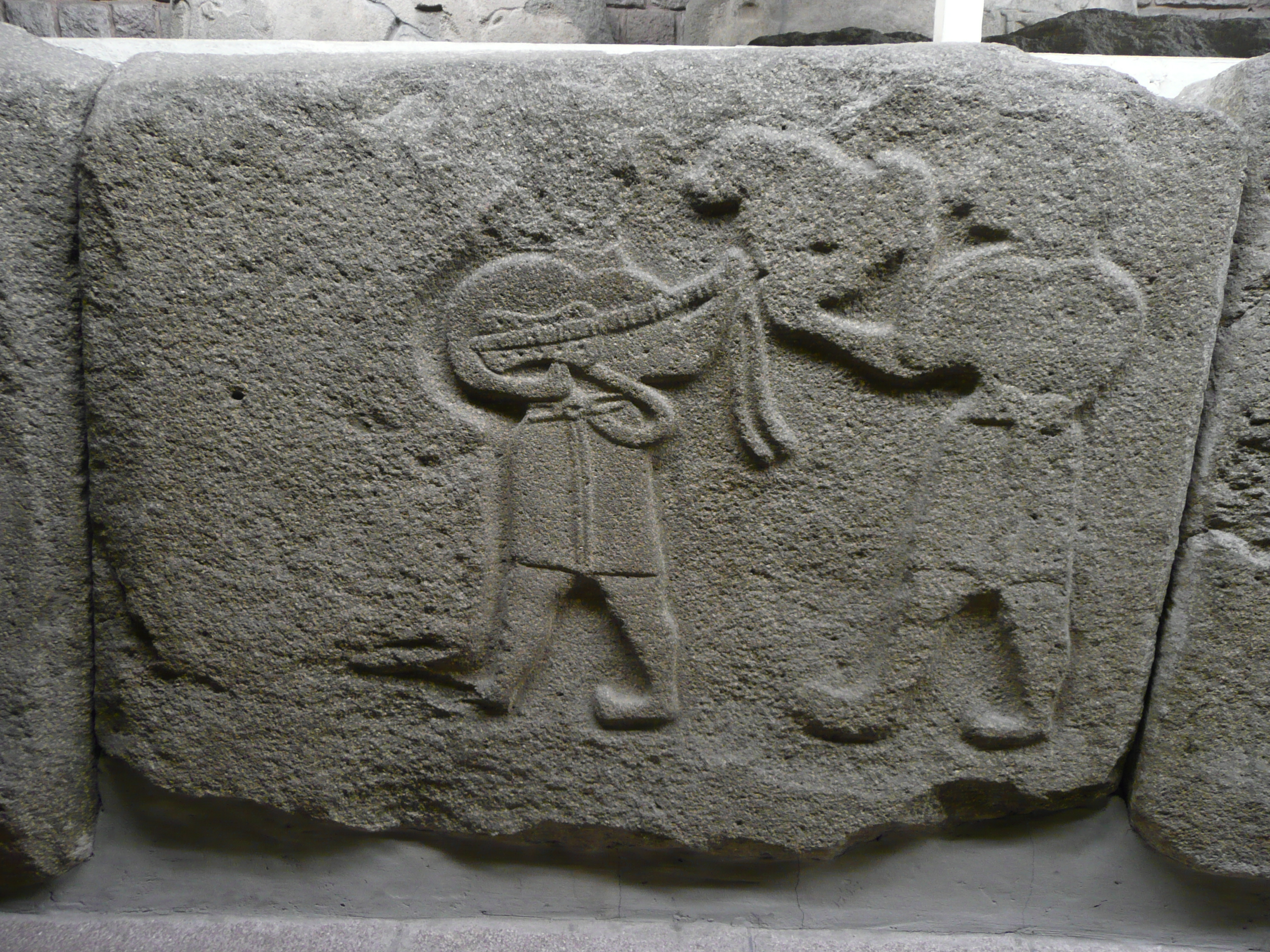 The Museum of Anatolian Civilizations is situated in Ankara, Turkey. It is one of the leading museums in the world for its unique collection of the ancient history of Anatolia.